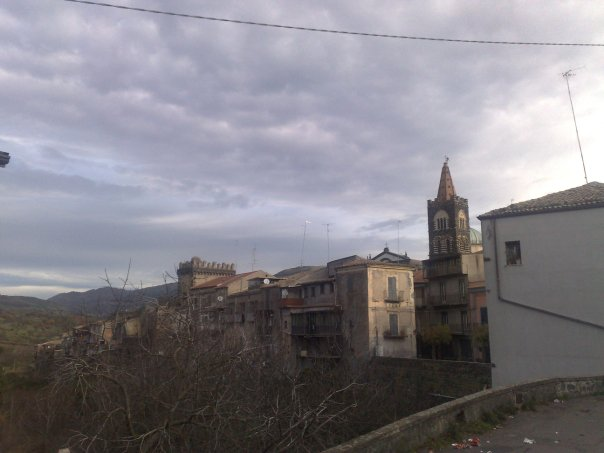 A photo that I took of the Sicilian town of Randazzo